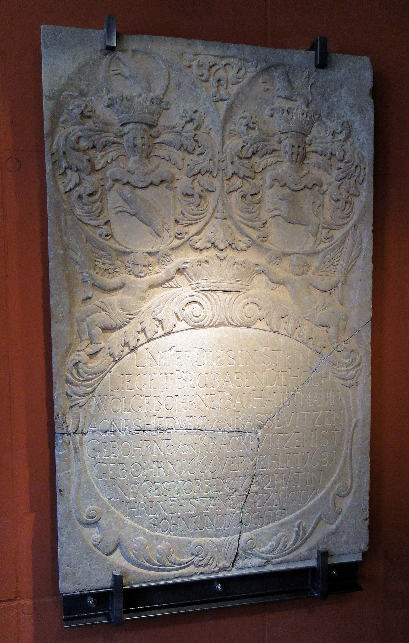 Ledger stone of Agnes Hedwig von Bassewitz in Dobbertin, district Parchim, Mecklenburg-Vorpommern, Germany